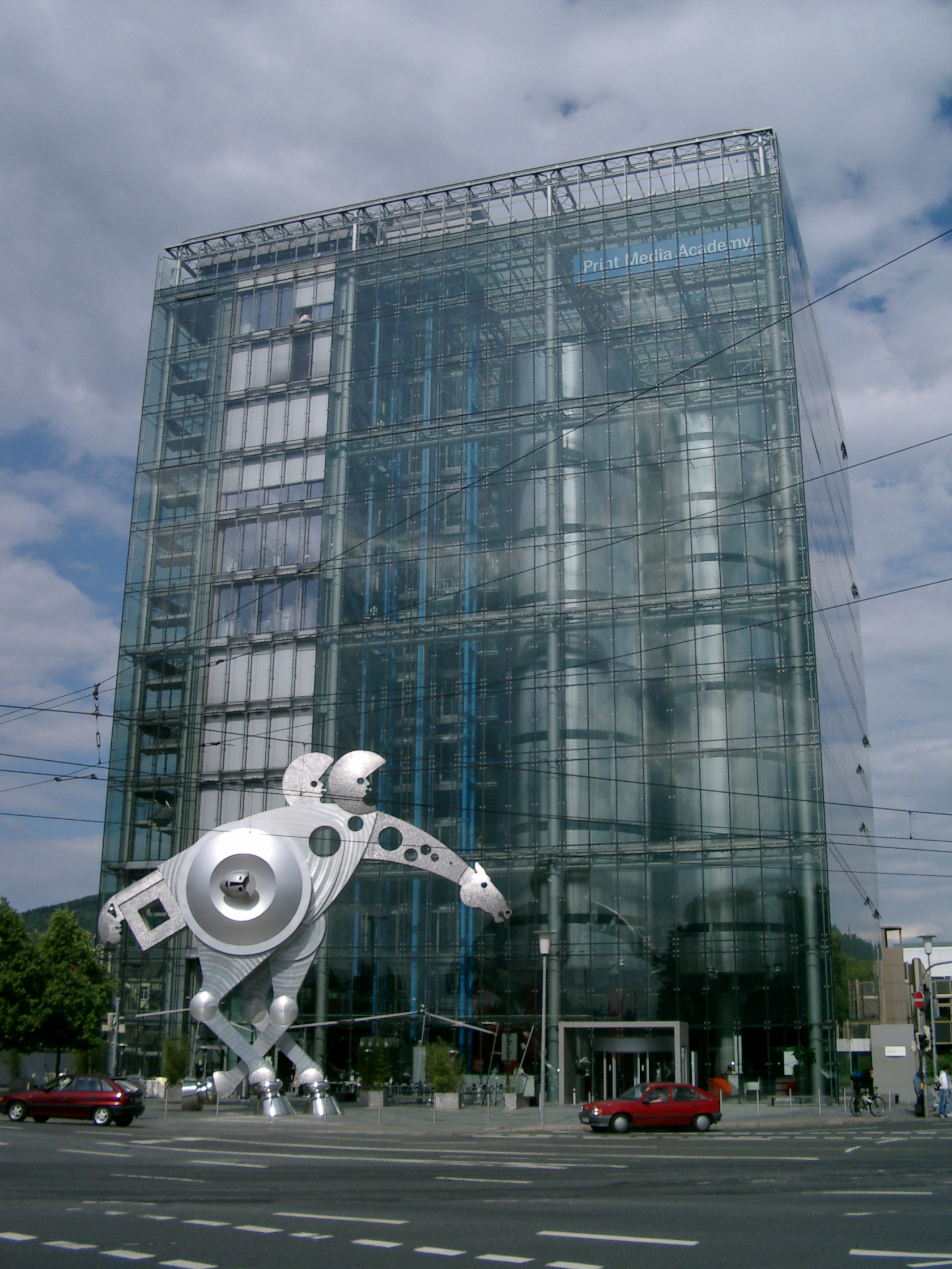 Print Media Academy, Office and Seminar Building of Heidelberger Druckmaschinen AG in Heidelberg Photographed myself May 24th 2006